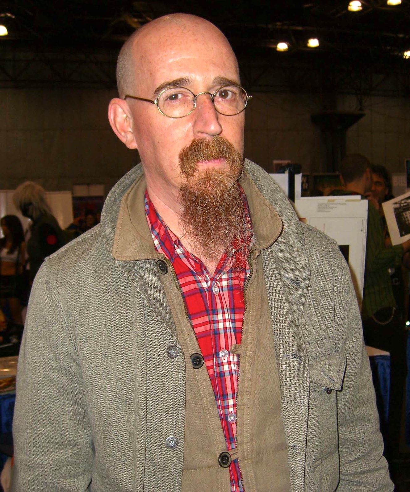 Comics creator Brian Azzarello at the New York Comic Con, October 15, 2011. This photo was created by Luigi Novi. It is not in the public domain, and use of this file outside of the licensing terms is a copyright violation.